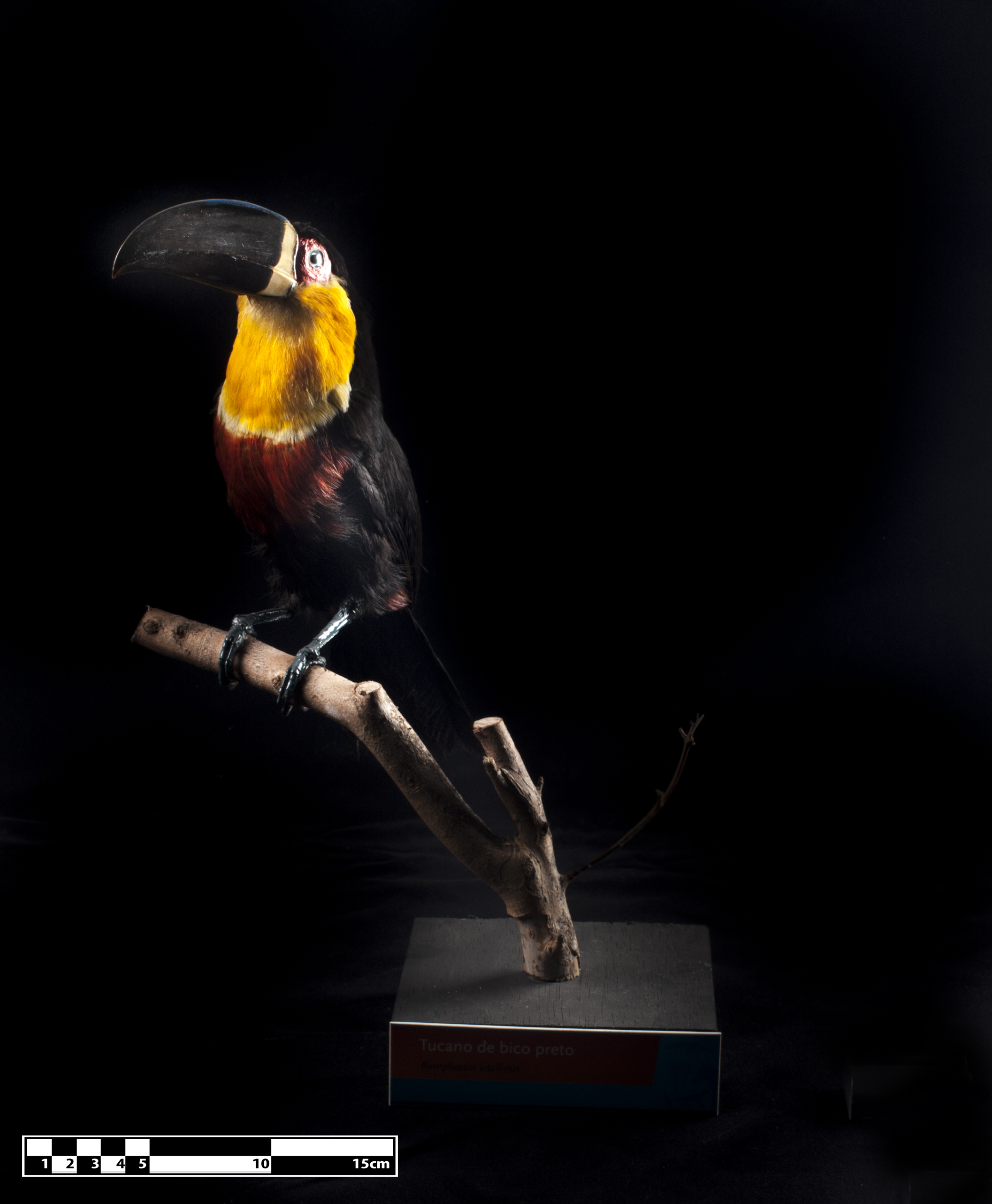 Toucan Black beak (Ramphastos vitellinus). Taxidermy specimen of a toucan on display at the Museum of Veterinary Anatomy FMVZ USP. This file was published as the result of a partnership between the Museum of Veterinary Anatomy FMVZ USP, the RIDC NeuroMat and the Wikimedia Community User Group Brasil. This GLAM project is reported. Photography: Museum of Veterinary Anatomy FMVZ USP. Author: Wagner Souza e Silva.